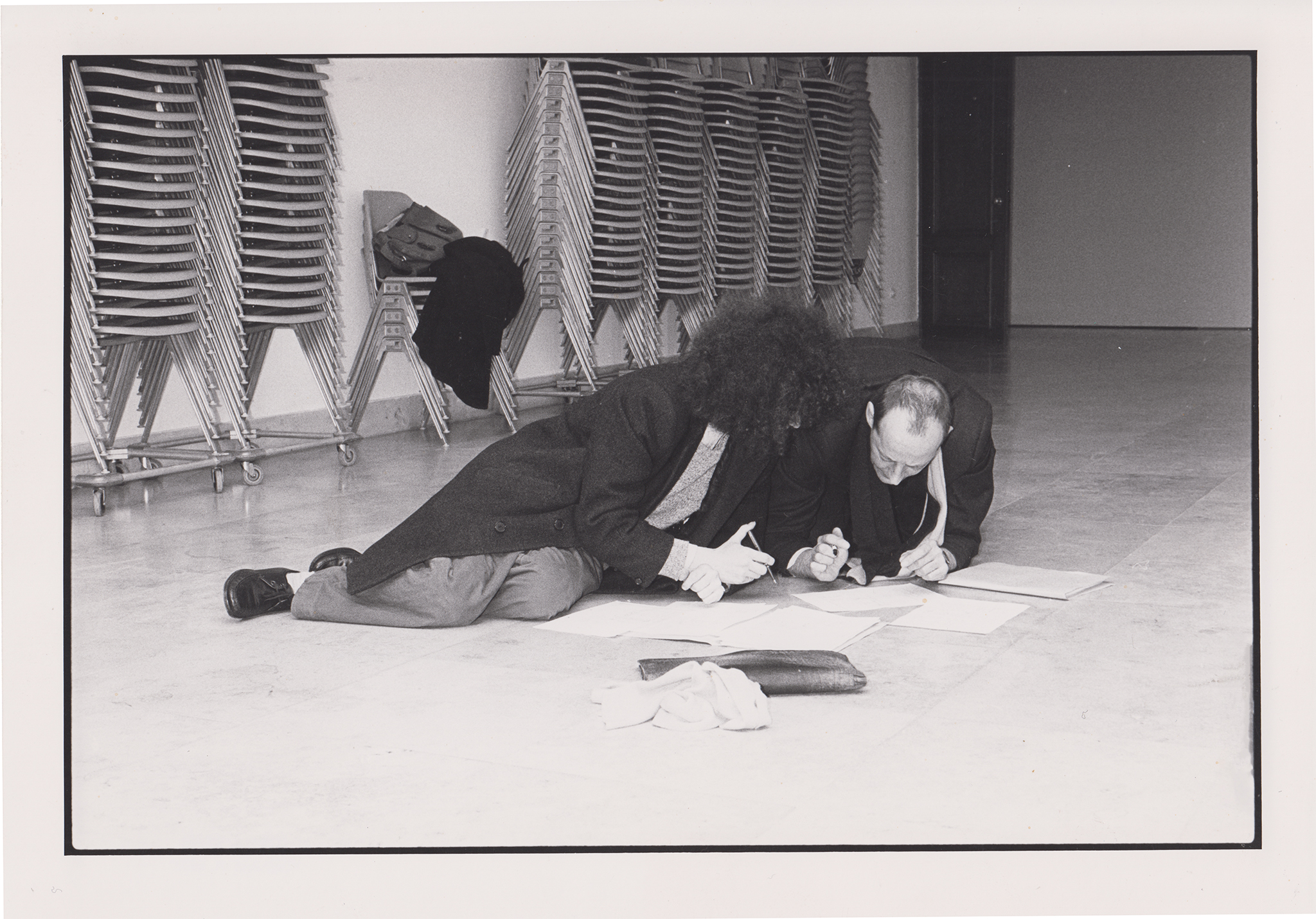 Kasper König in conversation with Bart Cassiman on the installation of Initiatief 86.Ghent (1986)